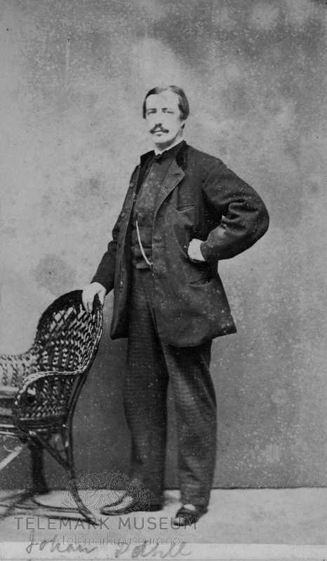 Portrait of John Dahll